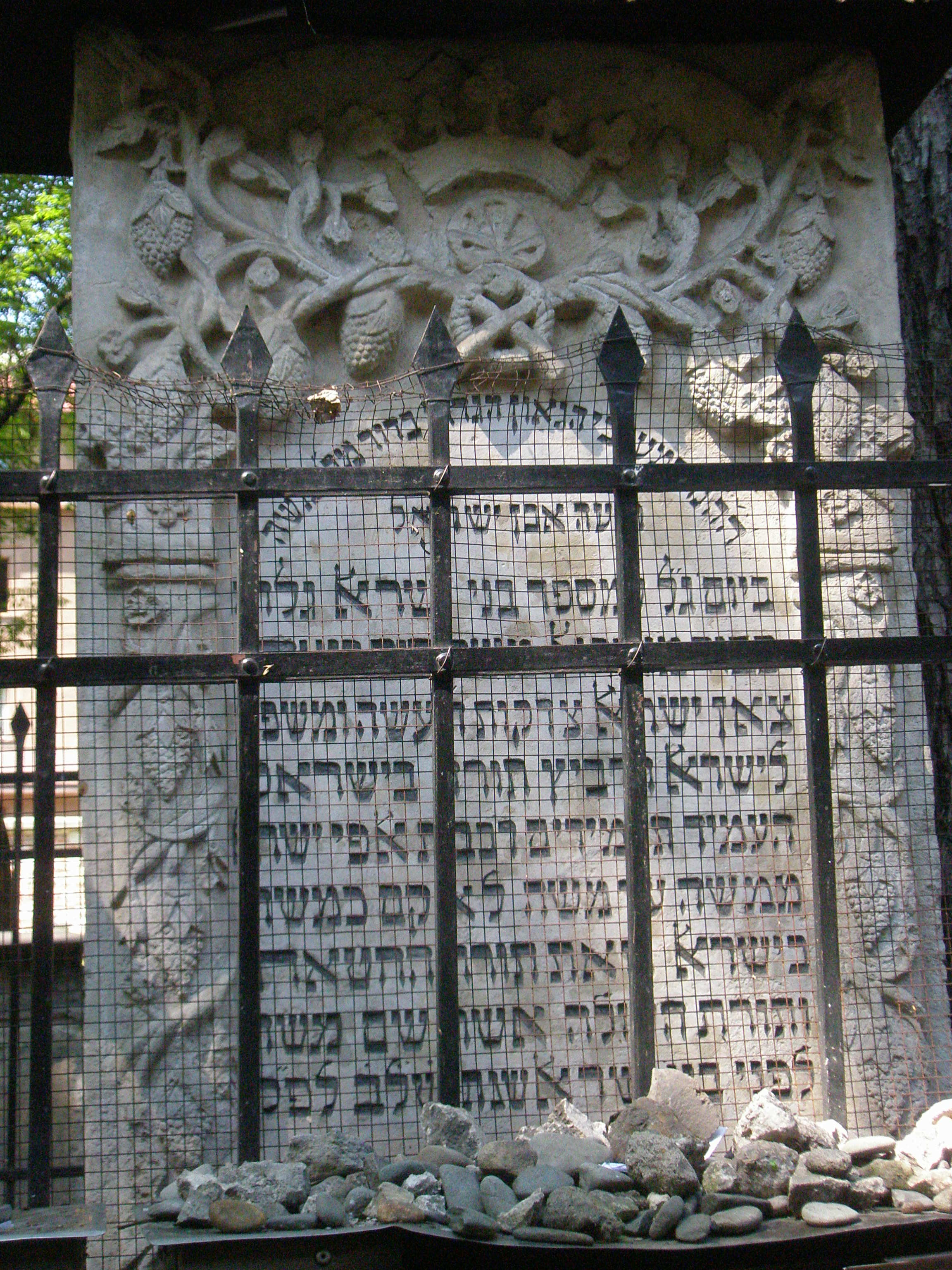 Maceva (tombstone) of Mose Isserles (Remuh)